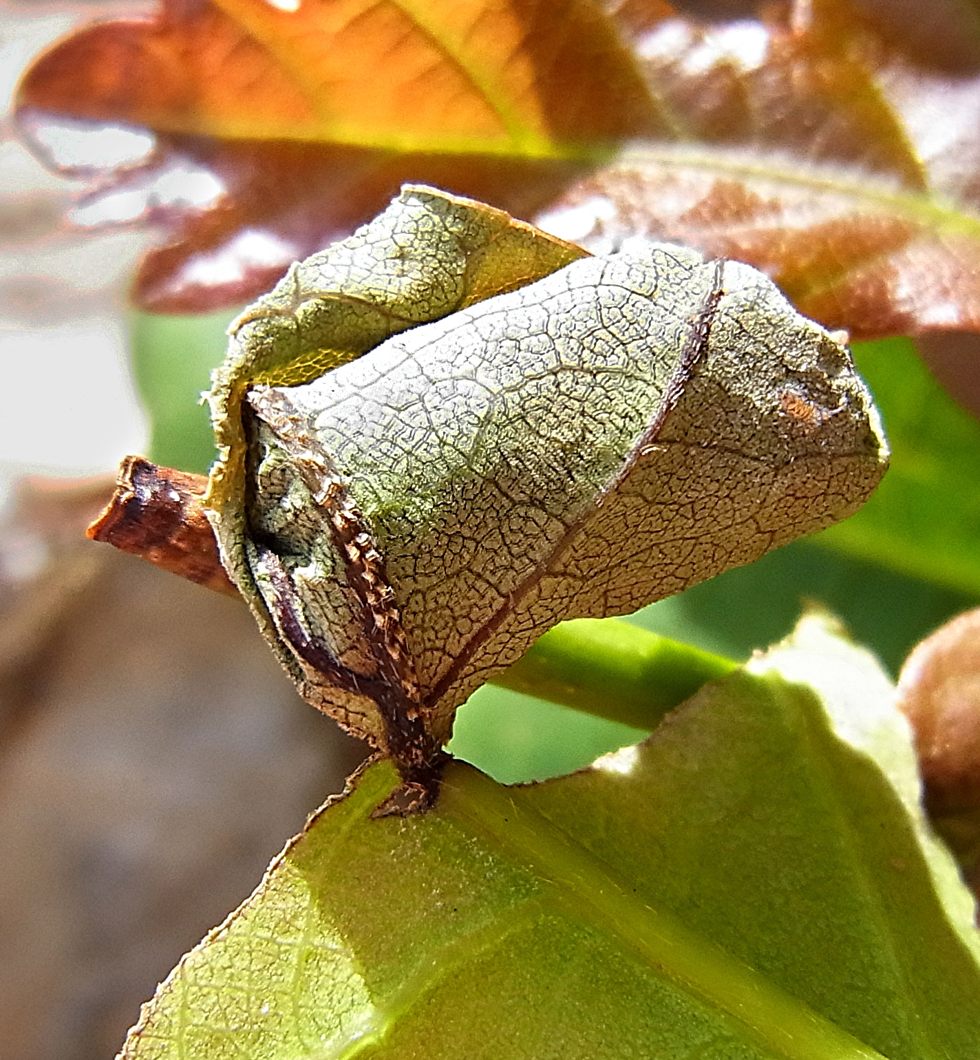 Attelabus nitens from France Monts de l'Espinouse at 2011-06-11